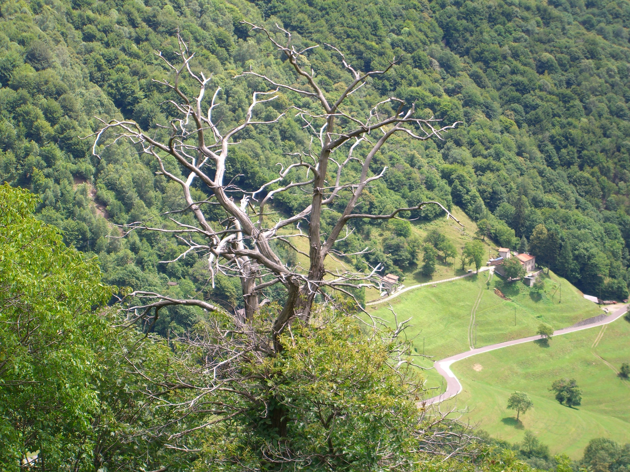 Maggio valley, Breggia municipality, Ticino, Switzerland